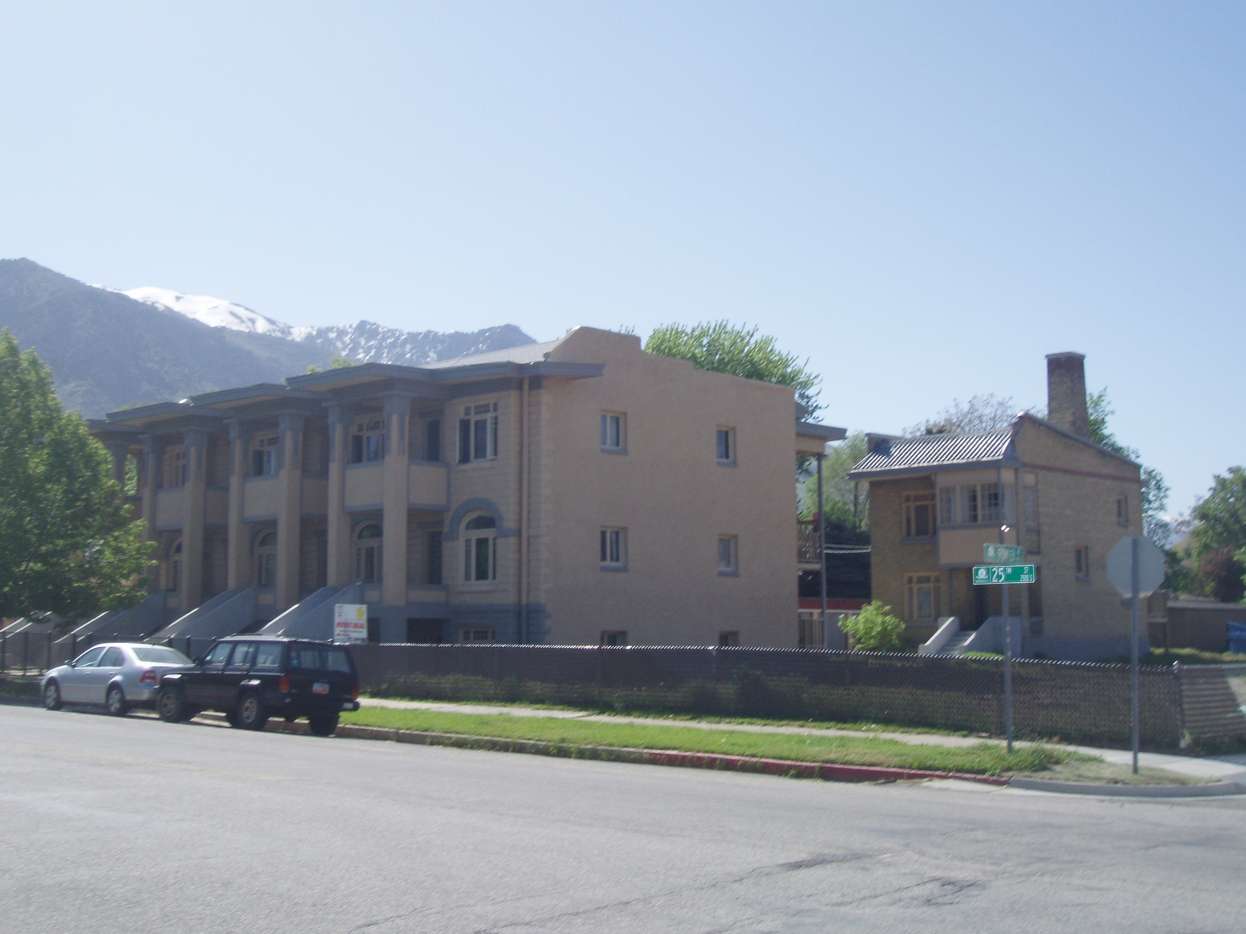 The Avon Apartments, a historic building in Ogden, Utah, United States.